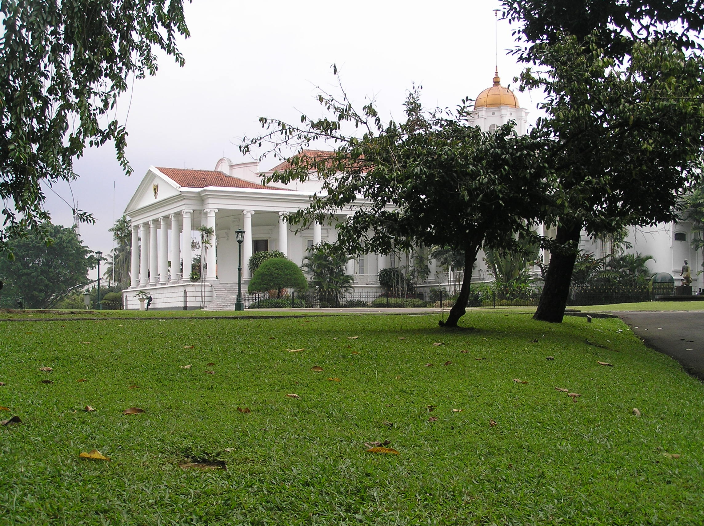 The Presidential Palace in Bogor, Indonesia